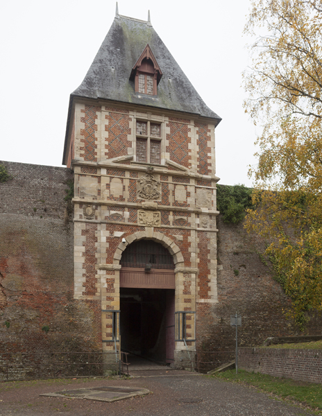 Péronne; Hauts de France, Somme; France; City fortifications walls. City gate (Porte de Bretagne). 1601-1606. ; Les remparts, Porte de Bretagne; Cultural heritage; Cultural heritage|Monuments; Europe|France; Europe|France|Hauts-de-France; Europe|France|Hauts-de-France|Somme; Europe|France|Hauts-de-France|Somme|Péronne; Ref: PM_113565_F_Peronne; Photographer: Paul M.R. Maeyaert; ; © Paul M.R. Maeyaert